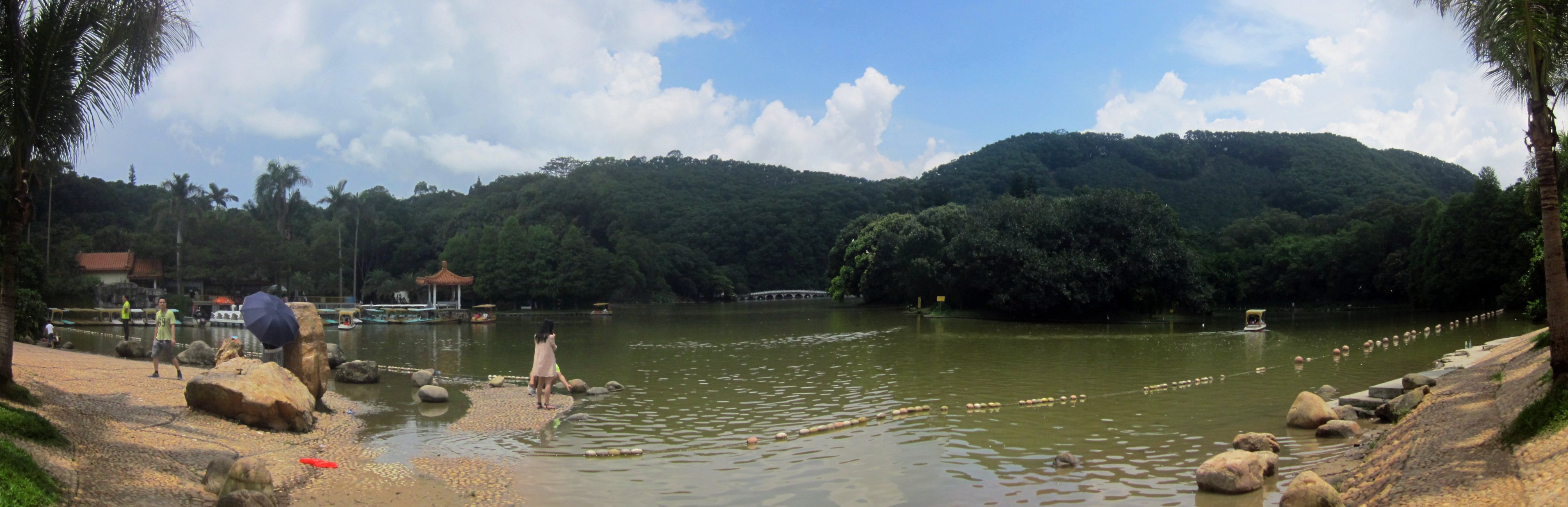 The Lake Xian (Xianhu) in Xianhu Botanic Garden, Luofu District of Shenzhen, Guangdong, China.